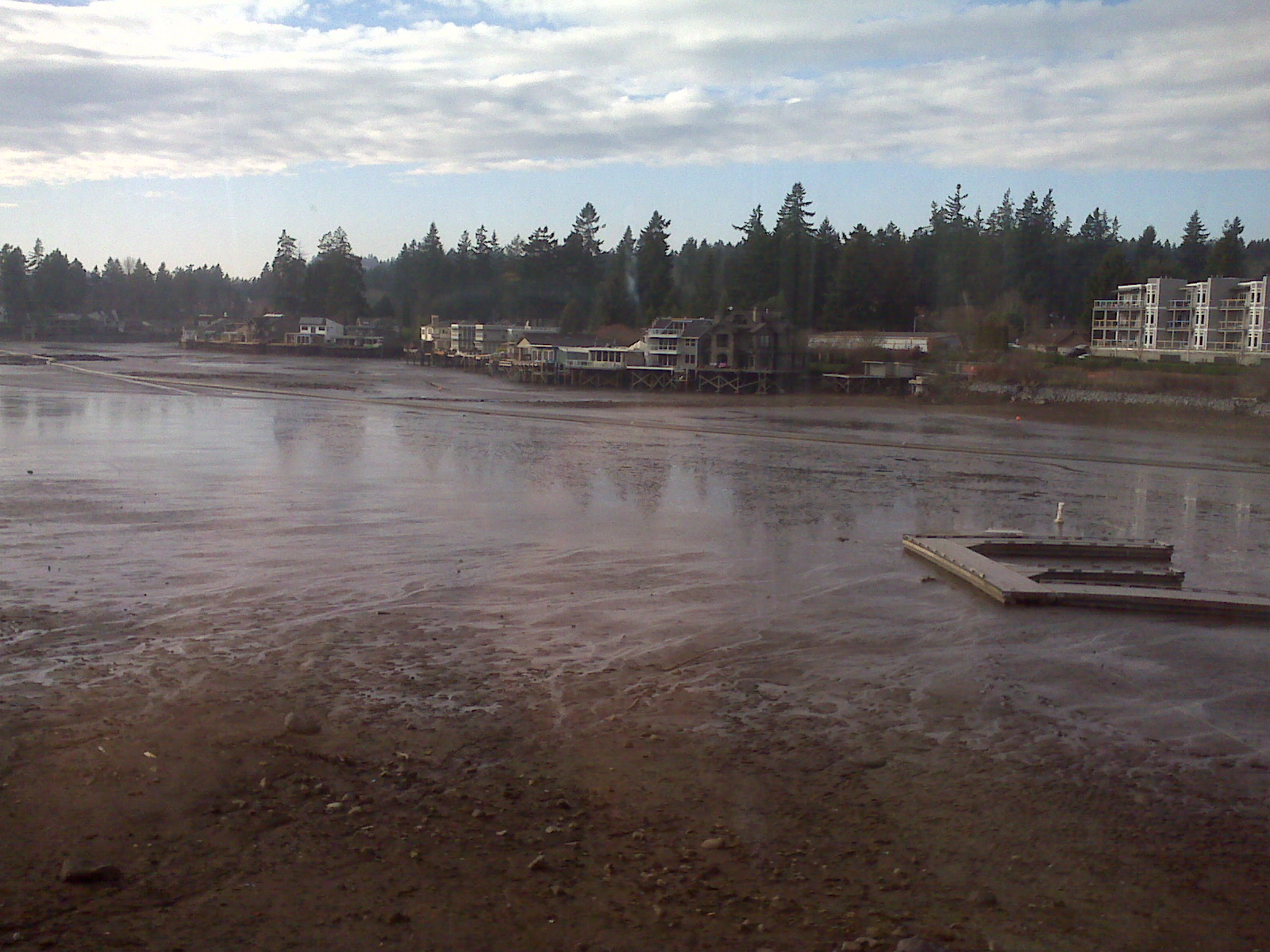 Oswego Lake during 2010-2011 drawdown, January 2011